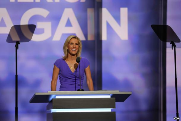 Laura Ingraham speaks during the third day of the 2016 RNC